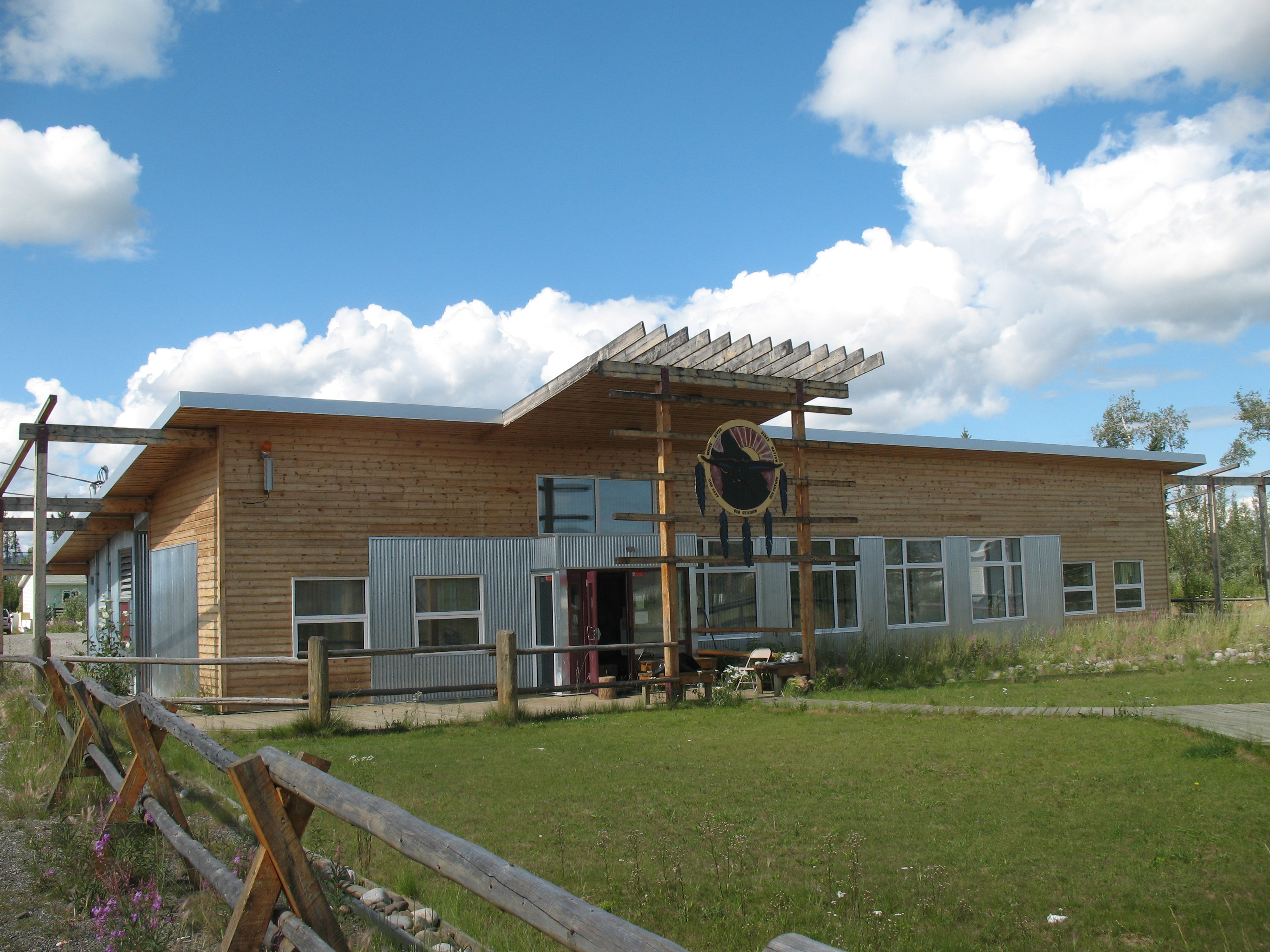 Cultural Centre of White River First Nation in Beaver Creek, Yukon